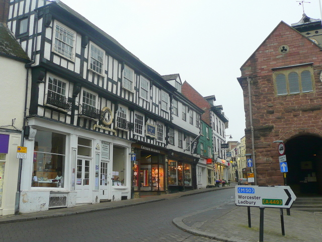 The Man of Ross House. Pictured across the junction of the High Street with Broad Street. See the first Geograph for this square, 5884; the shop on the left has changed hands and livery.